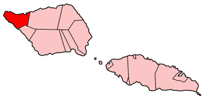 Map of Samoa showing Vaisigano district. Made by User:Golbez.